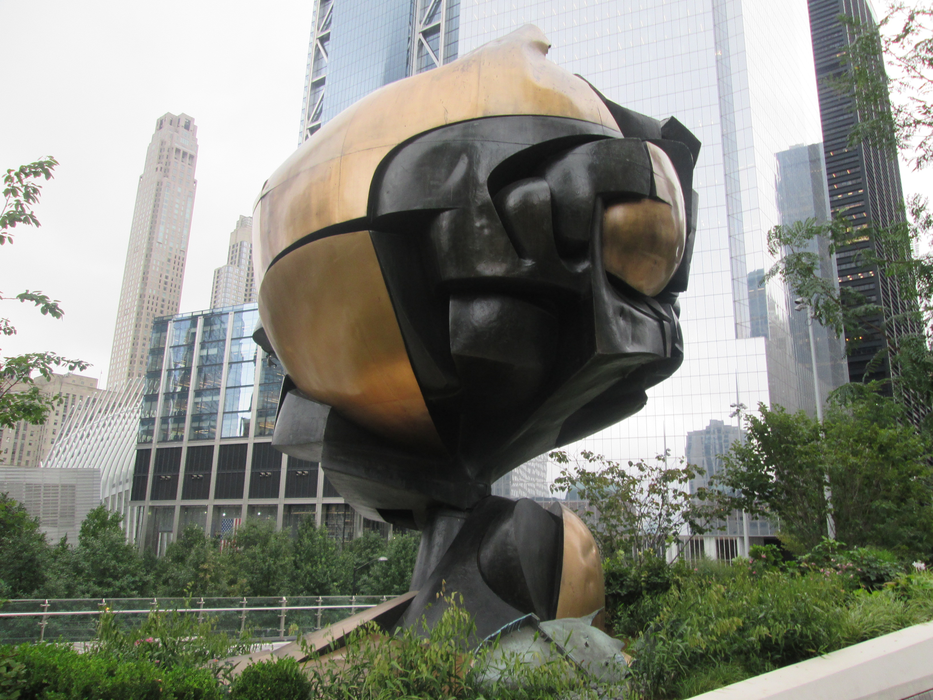 Liberty Park in New York City, seen in September 2018. Pictured is the Sphere, a sculpture damaged during 9/11. In the background is 3 World Trade Center